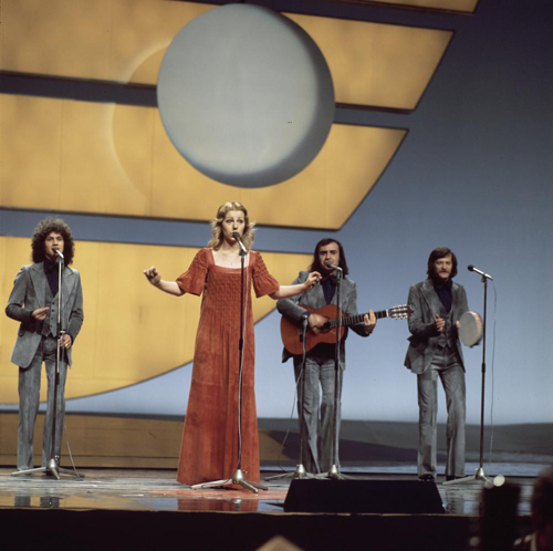 Ambasadori at a rehearsal for the Eurovision Song Contest 1976.